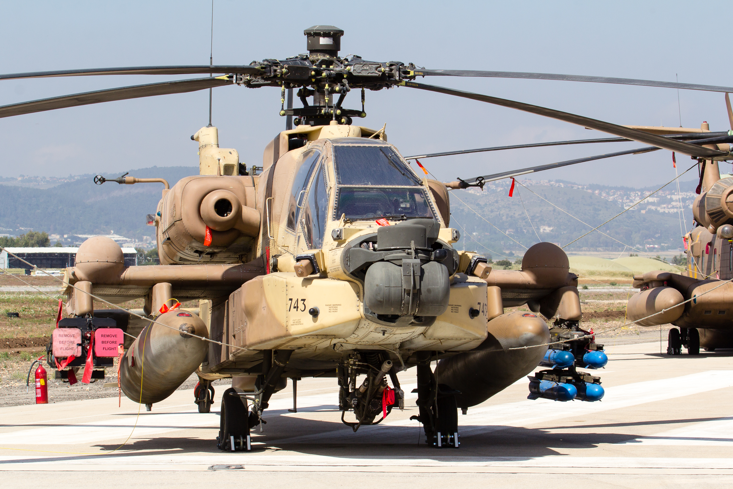 113 Squadron AH-64D Saraf at the Israeli Air Force exhibition at Ramat David AFB on Israel's 69th Independence Day. The aircraft is seen carrying both Hellfire training rounds (right) and Tammuz/Spike NLOS missiles (left)